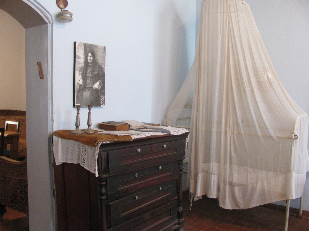 A bed and a dresser in one room